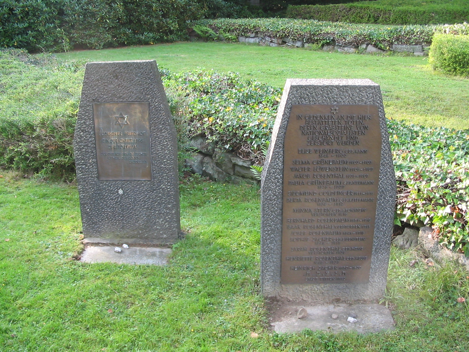 memorial for former jewish cemetery in Witten-Annen